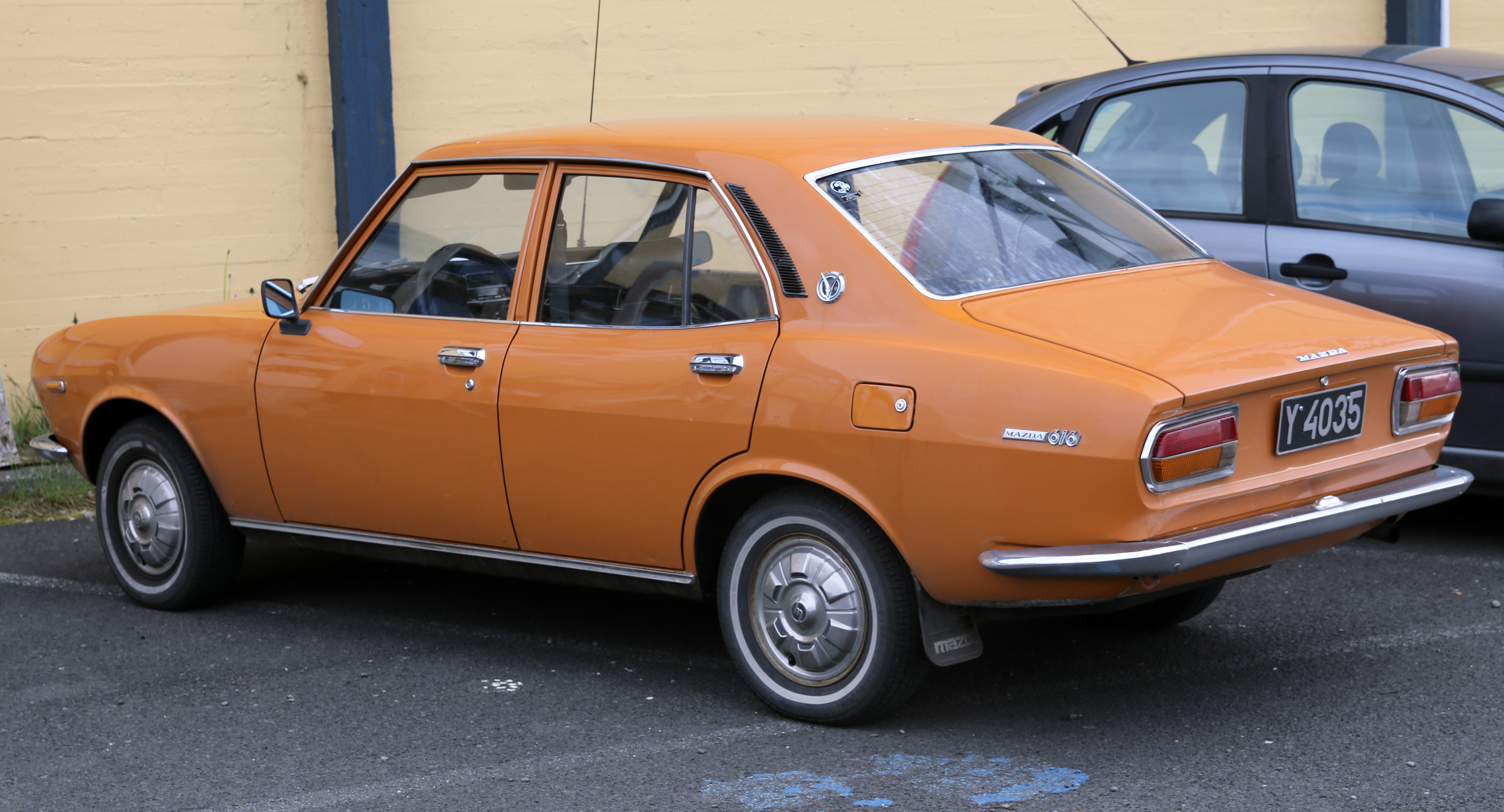 1973 Mazda 616 1600 Deluxe in incredible condition, in a port quarter of Reykjavík, Iceland.